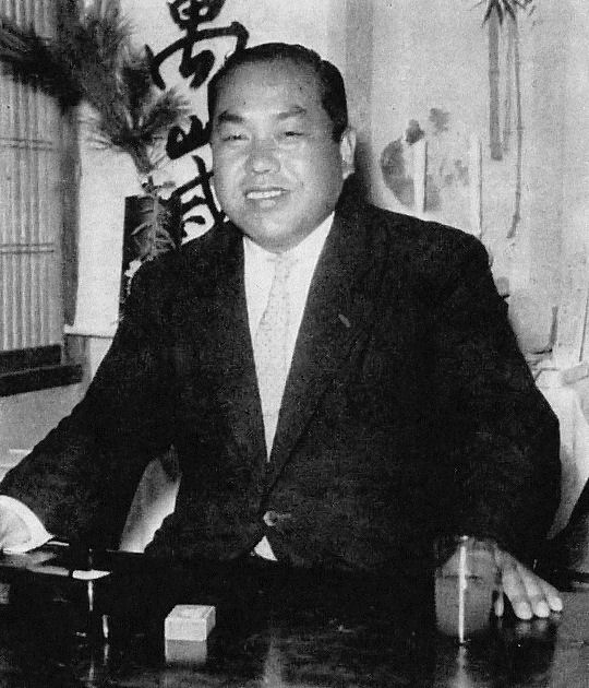 Totaro Fujita